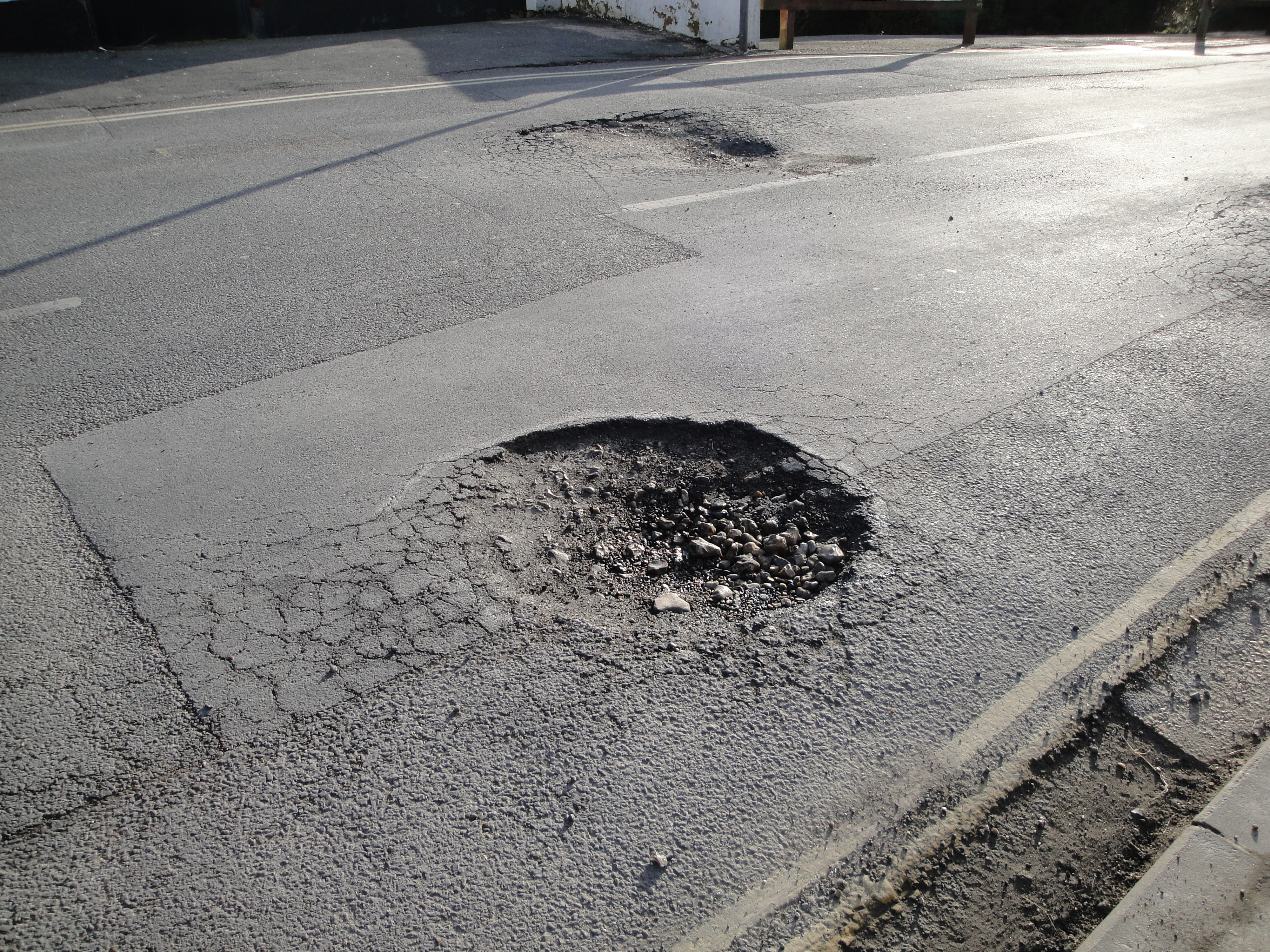 A large pothole in Whitepit Lane, Newport, Isle of Wight seen in February 2010. It was caused partly due to very cold weather during January 2010 causing water to freeze and cracks to form in the road surface. The damage has now been repaired.